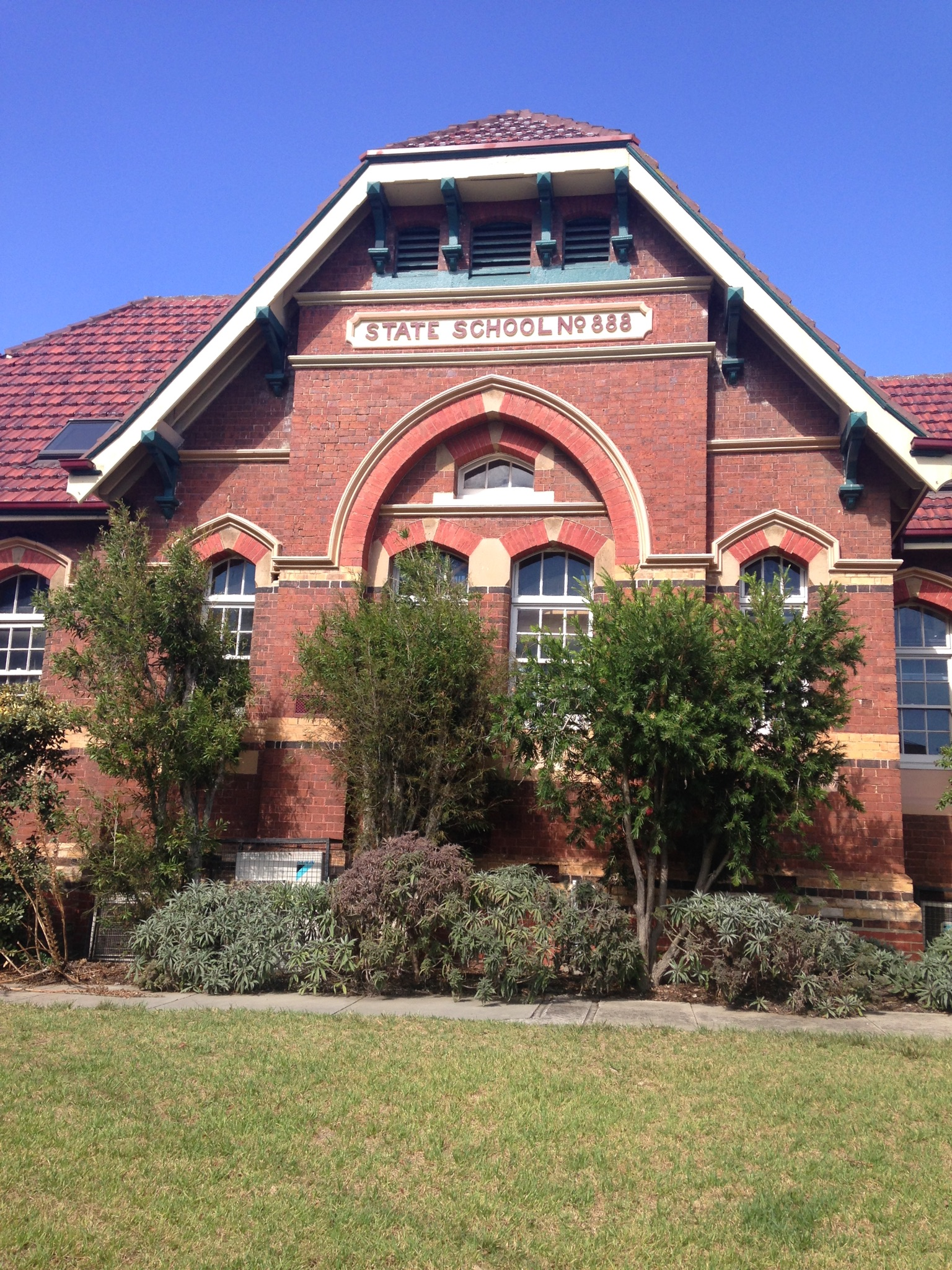 State School Number 888. Camberwell Primary School, Camberwell Road, Camberwell, Victoria, Australia